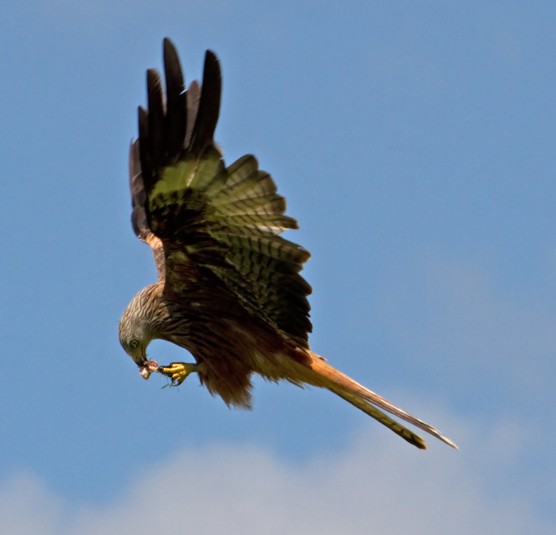 We went to the Kite feeding centre in Rhayader to watch the Red Kites. I took hundreds of photos, but have uploaded a selection.